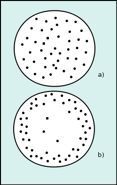 Efecto Kelvin